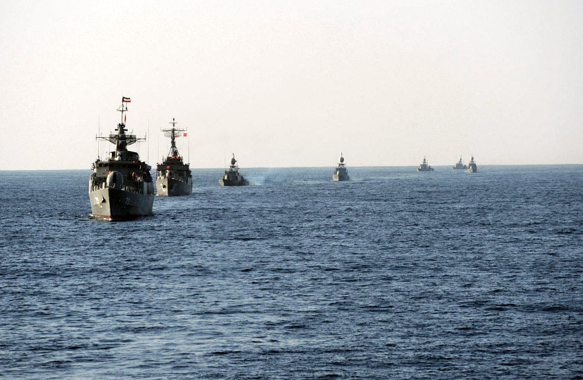 IRIN naval ships in Velayat-90 Naval Exercise.